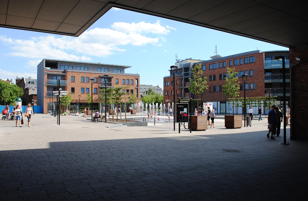 Buildings B and C